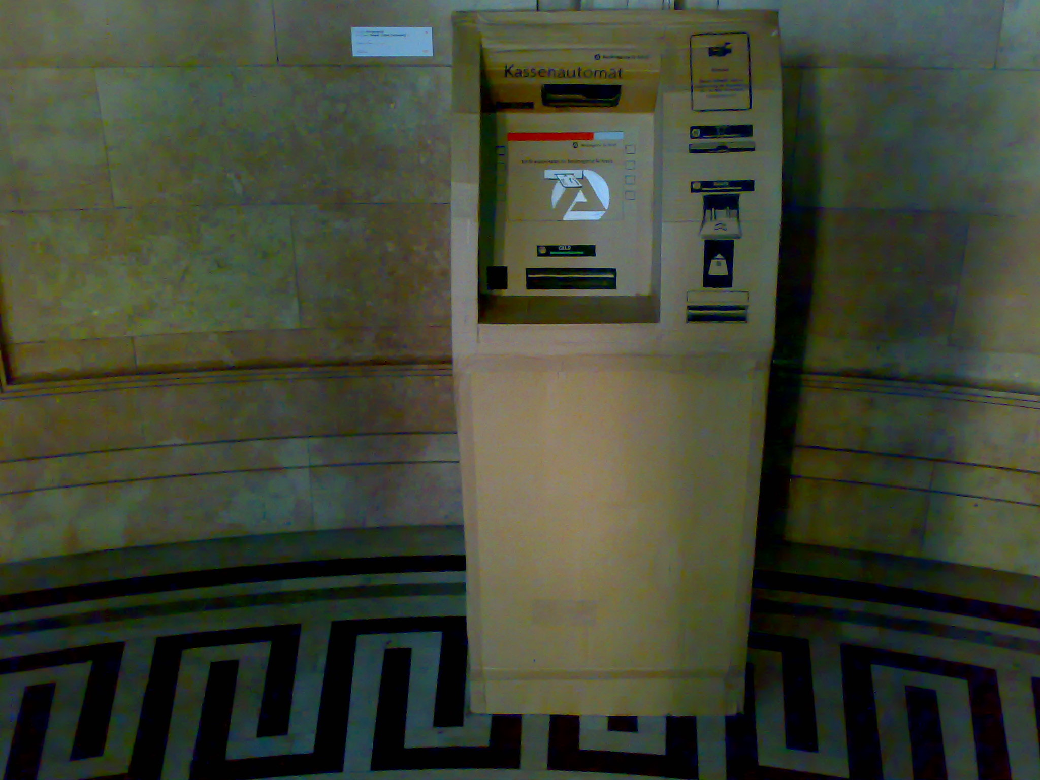 Christine Kriegerowski / Christof Tempel, Trust is good. Mediations Biennale, Poznan 2010.